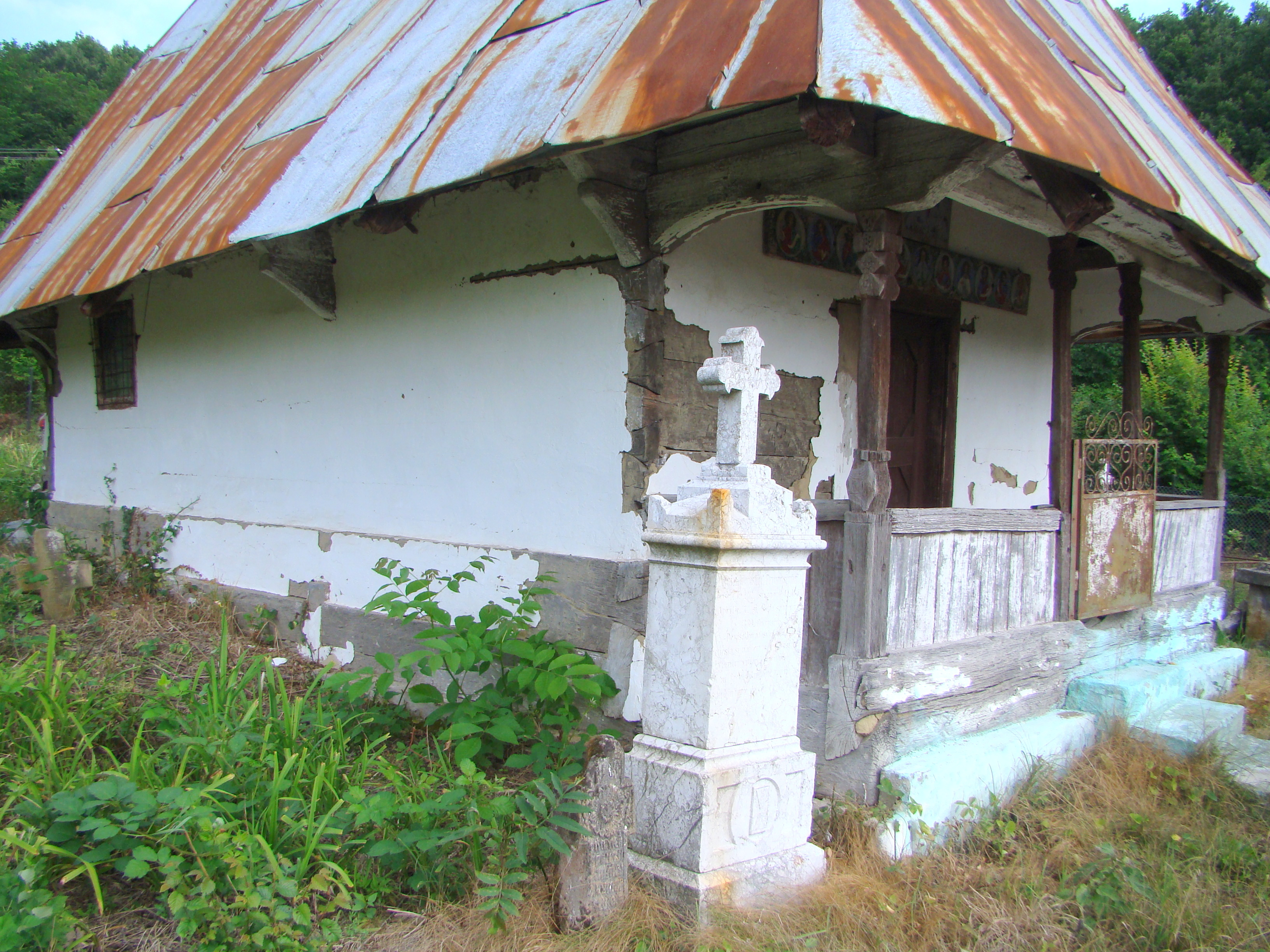 Wooden church in Doseni, Gorj county, Romania